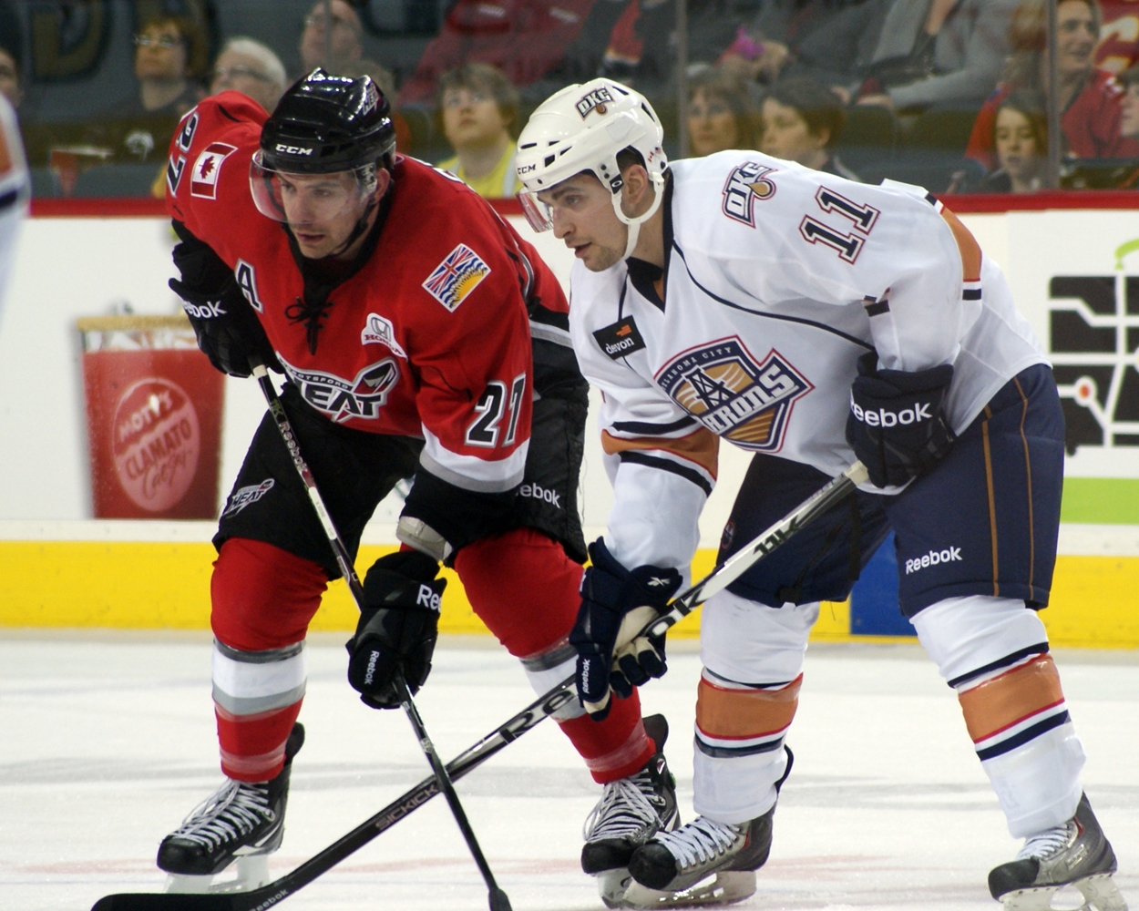 Photo was taken on February 18, 2011 during an American Hockey League (AHL) regular season game.